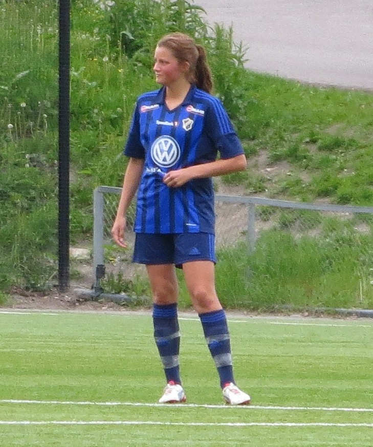 Image from Nadderud football field, Bærum, Norway. Match between STabæk J19 and Hødd J19, June 5, 2013.